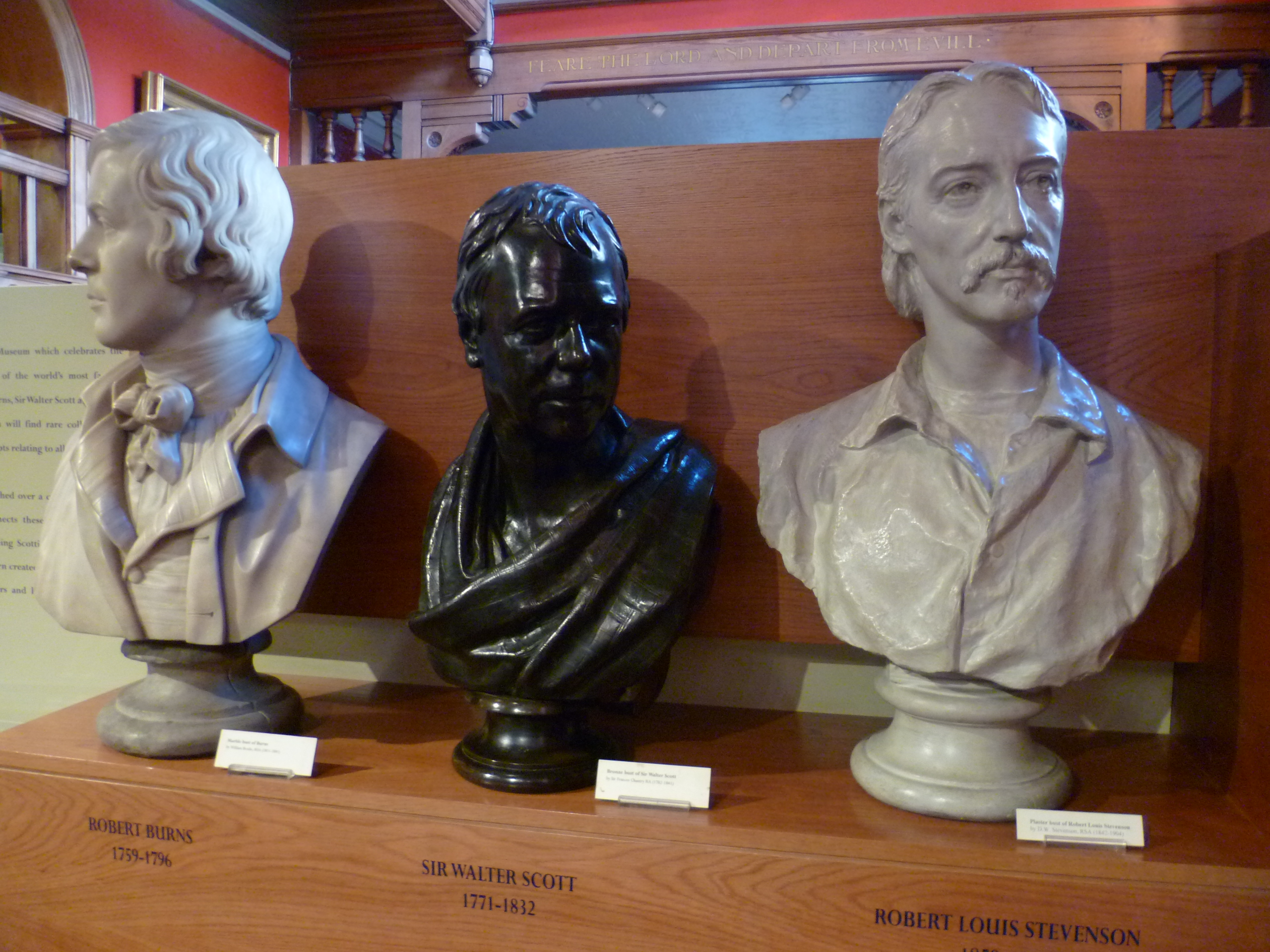 Busts of Robert Burns, Sir Walter Scott and Robert Louis Stevenson in the Writers Museum, Lady Stairs House, Edinburgh. "Is it not strange that, at a time when we have lost our Princes, our Parliaments, our independent Government, even the Presence of our chief Nobility, are unhappy, in our Accent & Pronunciation, speak a very corrupt Dialect of the Tongue, which we make use of; is it not strange, I say, that in these Circumstances, we shou'd really be the People most distinguish'd for Literature in Europe?" -- David Hume, letter to Gilbert Elliot, 1757